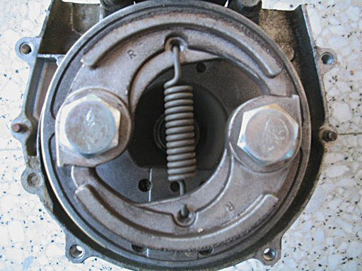 Clutch centrifuge of a motor powered scythe